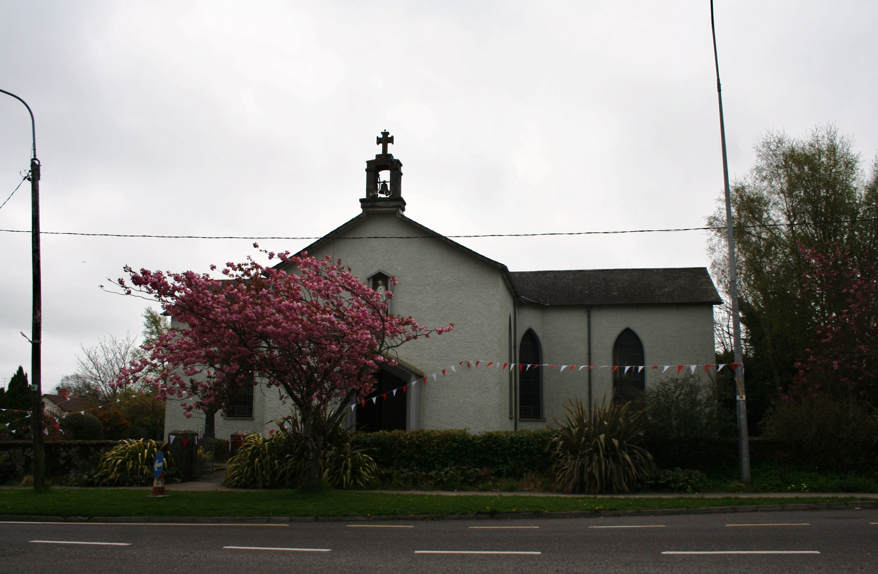 Church of the Immaculate Heart of Mary, near to Shanbally and Monkstown, Cork, Ireland. Dating from 1819 the Catholic church at Shanbally is located by the roundabout at the heart of the village ( no pun intended).